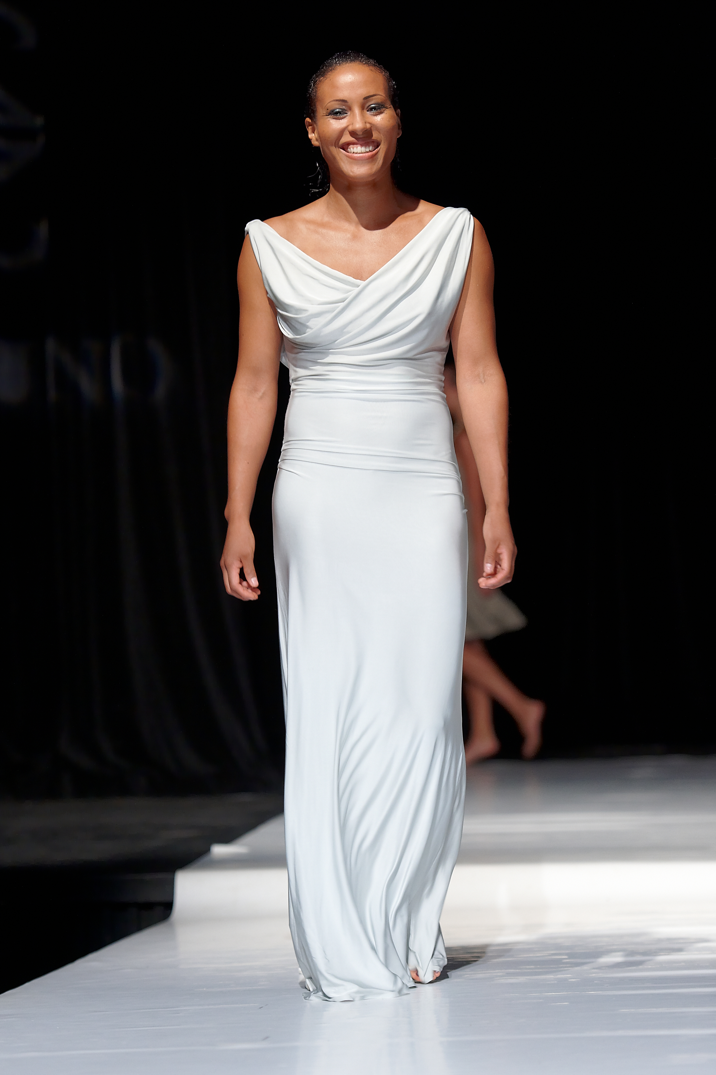 Cecilia Brækhus debut as model during Oslo Fashion Show. Here in a dress from Norwegian designer Nadya Khamitskaya. Hilton DoubleTree Hotel / Christiania Theatre, Oslo, Norway.